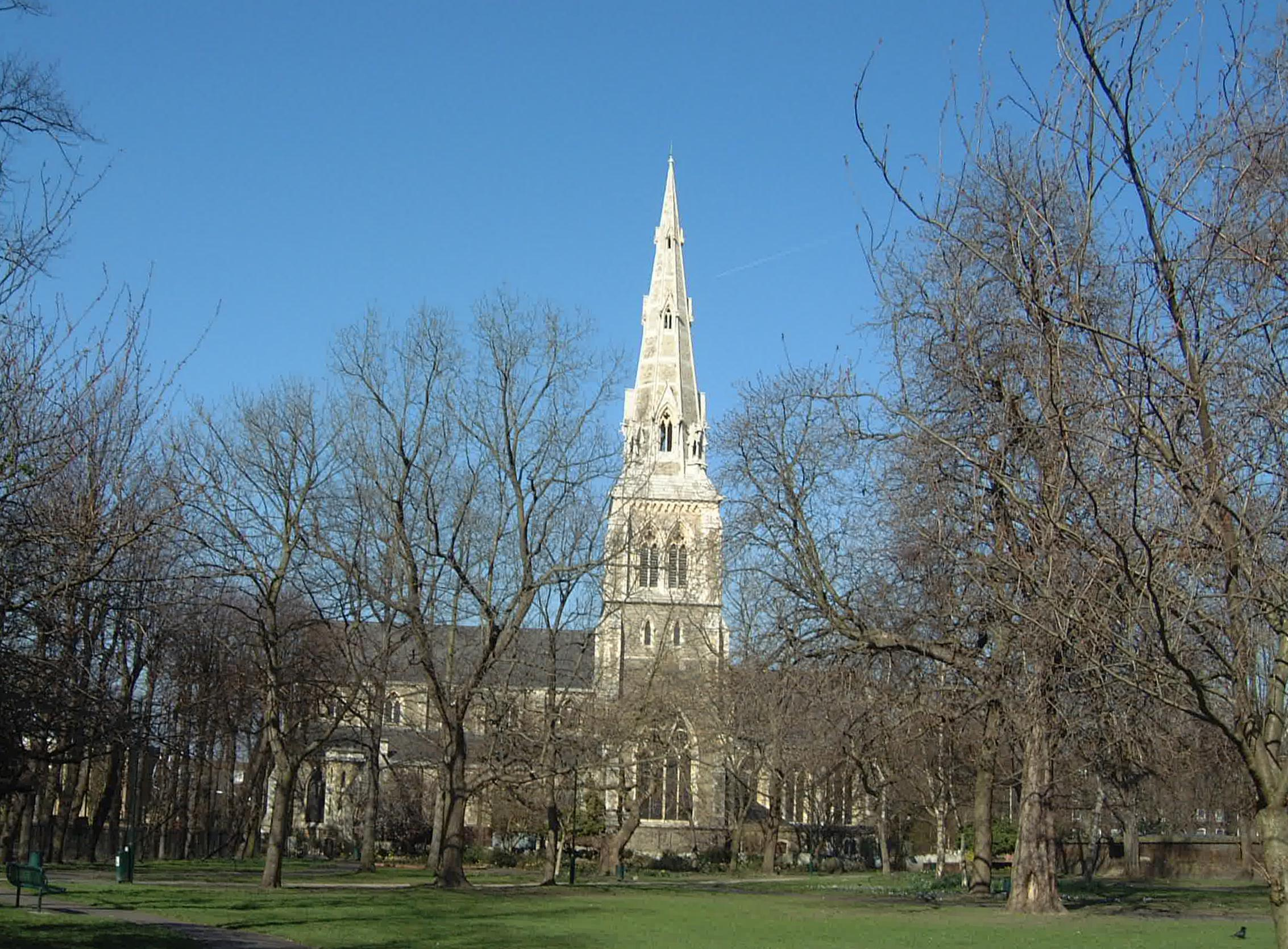 St Giles Church, Camberwell in 2000